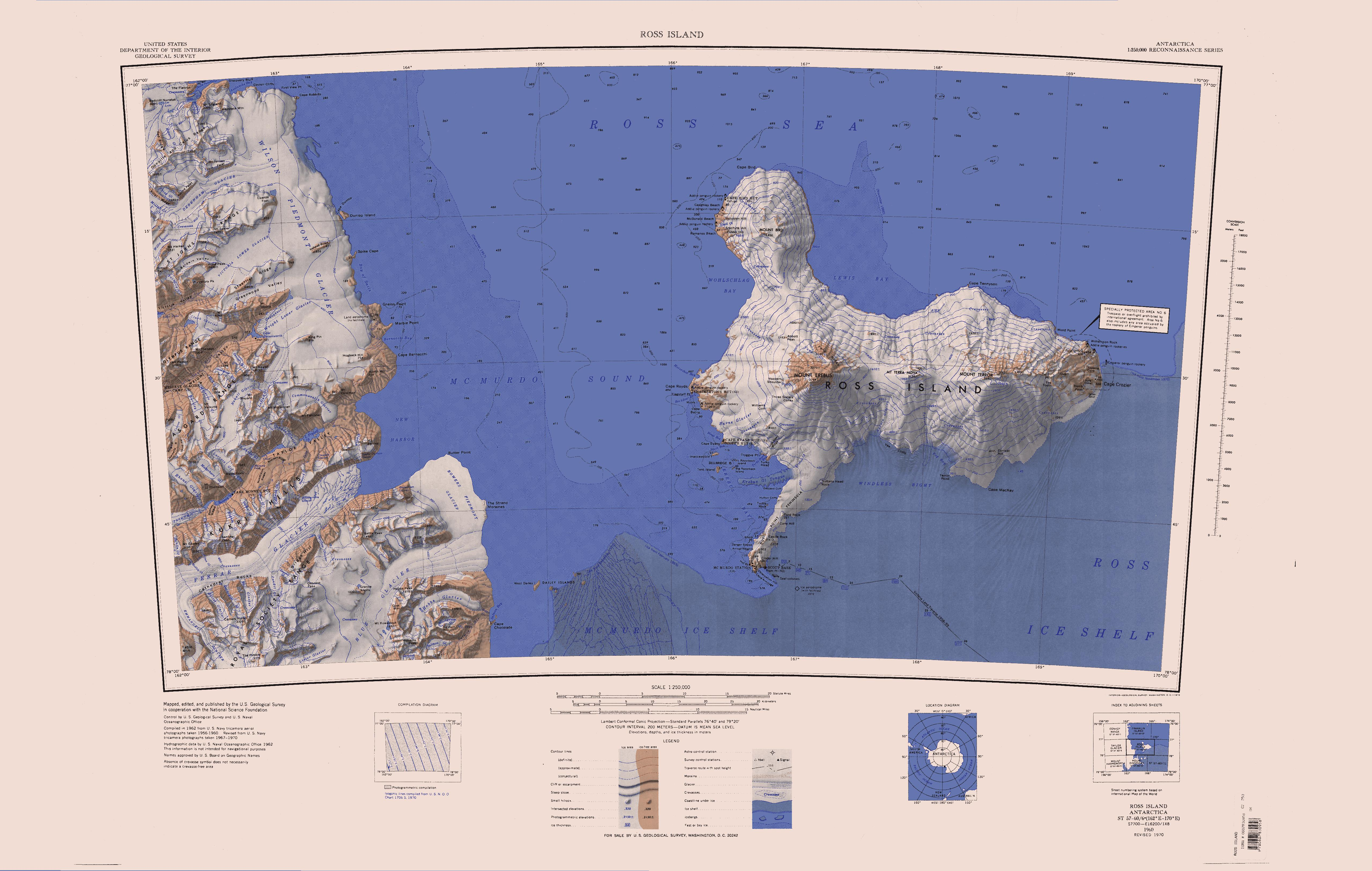 Map of Antarctica by the United States Antarctic Resource Center of the US Geological Society.